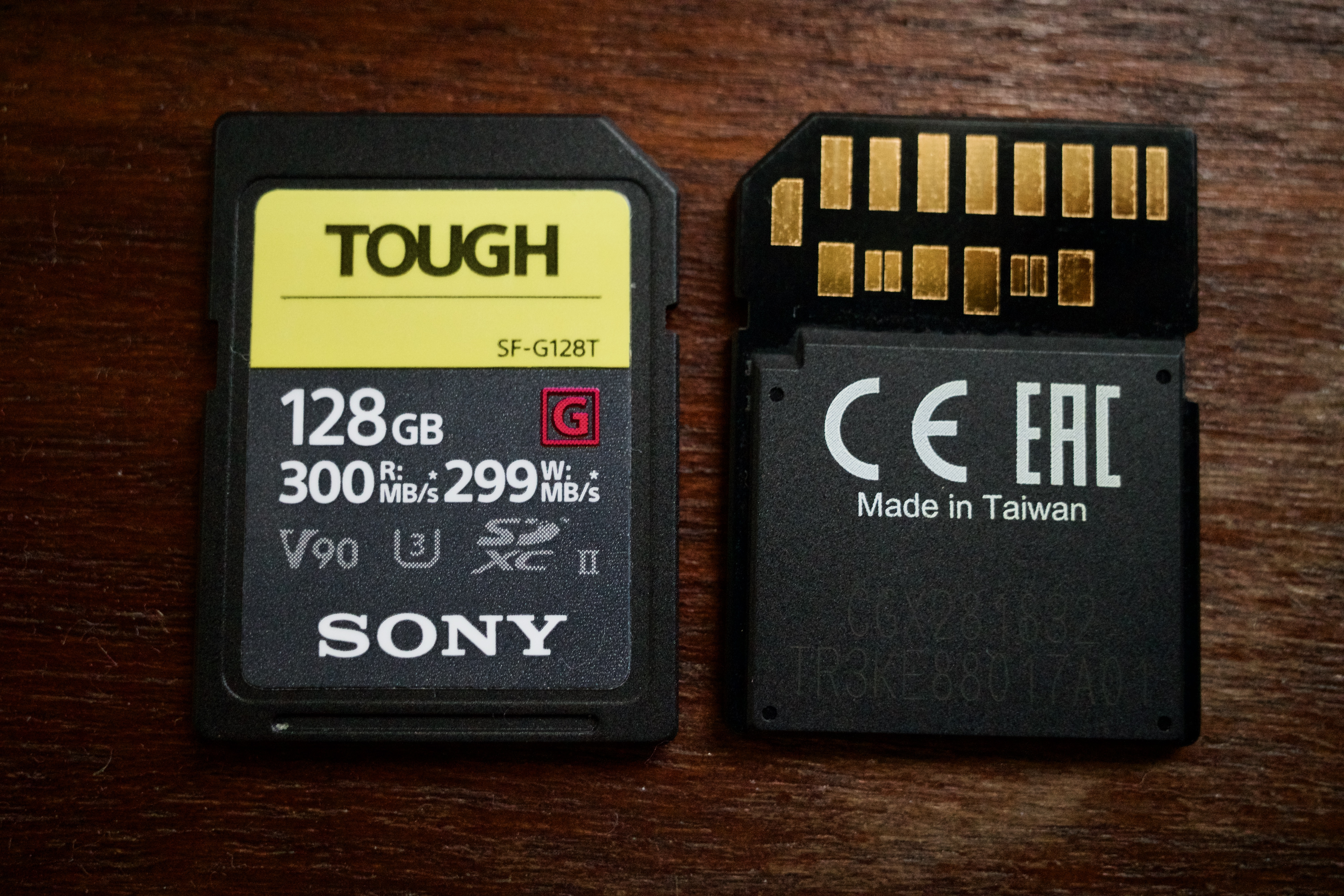 The front and back of the Sony 128GB SF-G Tough Series UHS-II SDXC Memory Card.